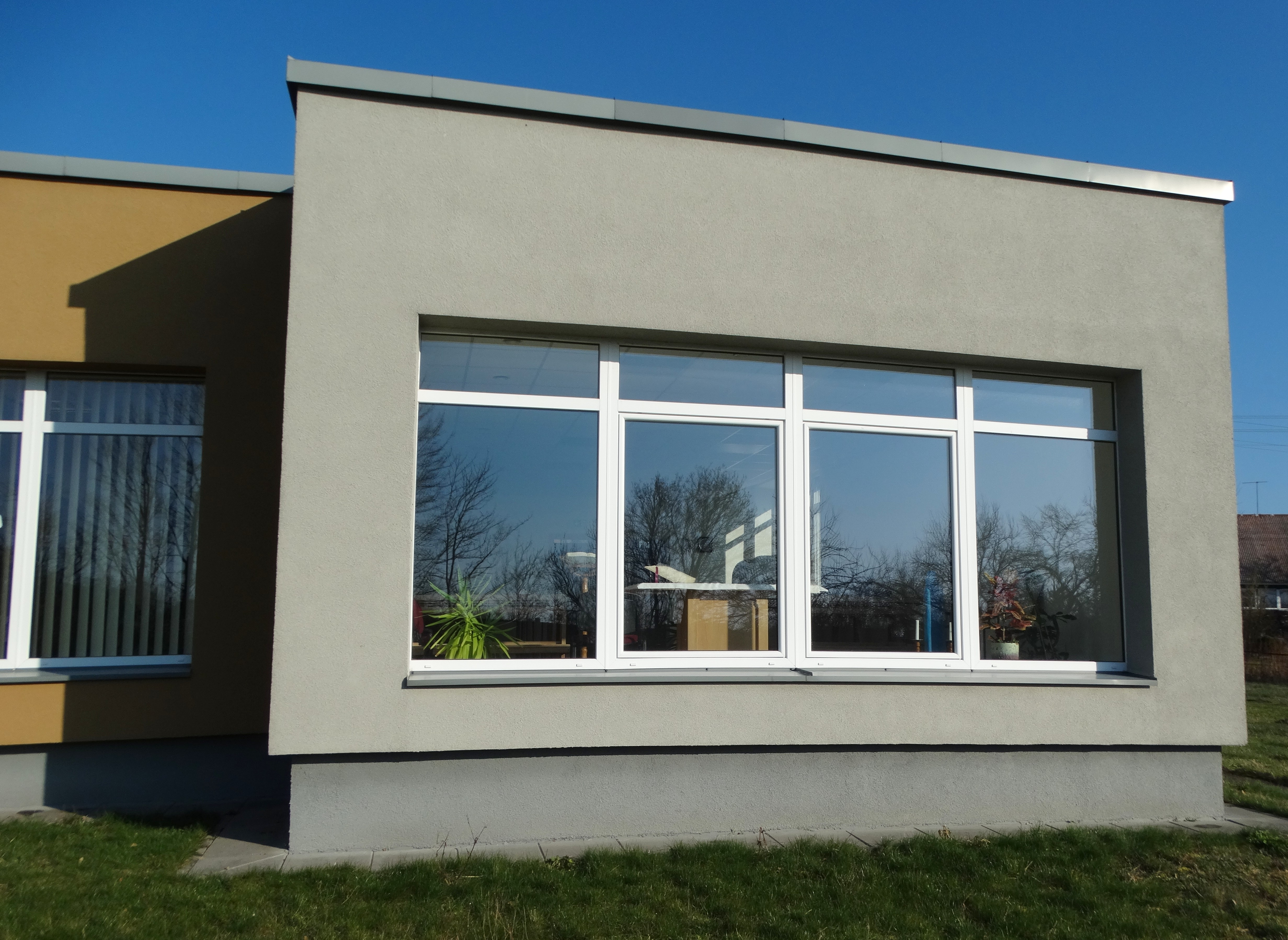 Žadeikiai, chapel, Klaipėda District, Lithuania